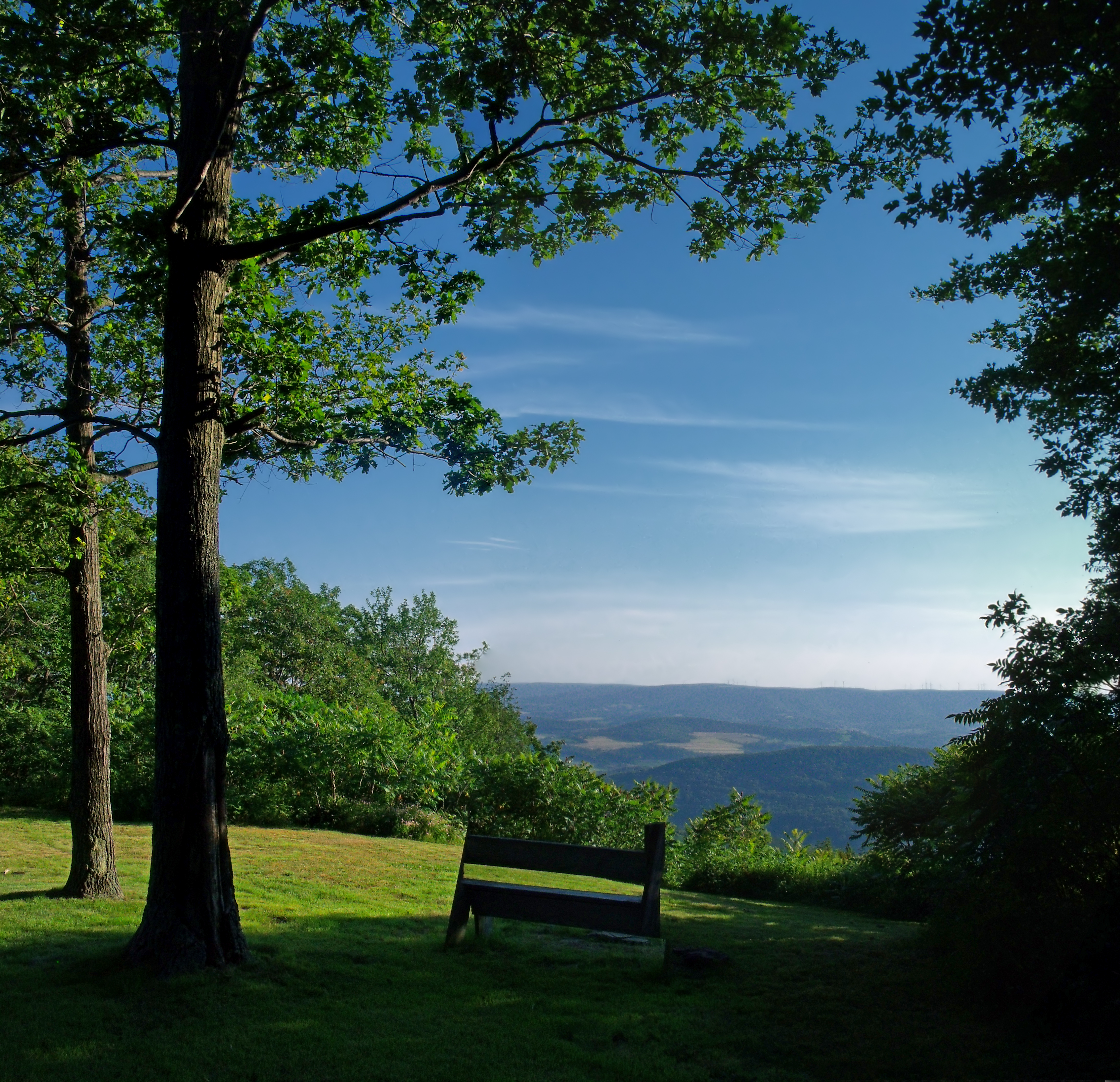 Southwest view from Mount Pisgah, Bradford County, within Mount Pisgah County Park.